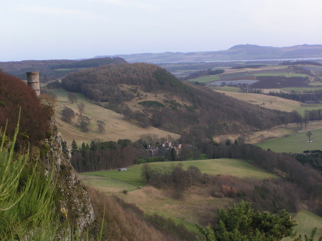 No Entry! The centre of the photograph shows Kinfauns Castle. The estate is owned by Ann Gloag who became the first private individual in Scotland to exempt her land from right-to-roam legislation.